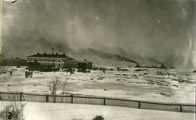 1918 Finnish Civil War: Germans landing Eckerö, Åland Islands.